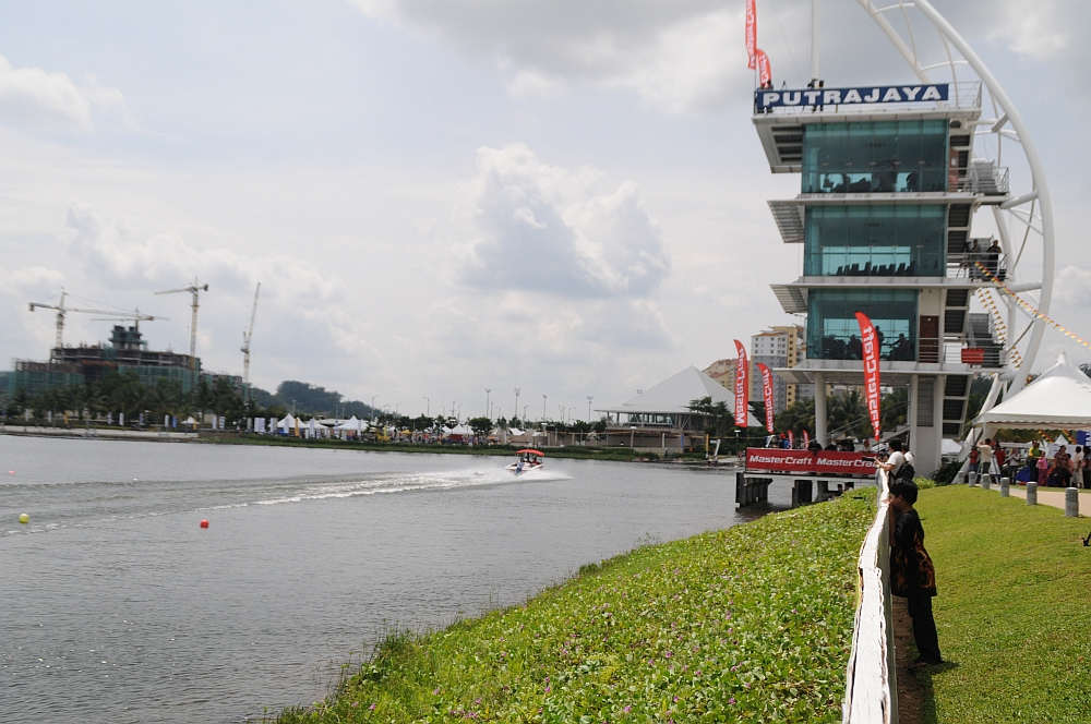 PUTRAJAYA WATER SKI AND WAKEBOARD WORLD CUP 2008